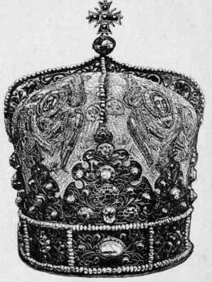 Mitre episcopalis of Peremyshl.